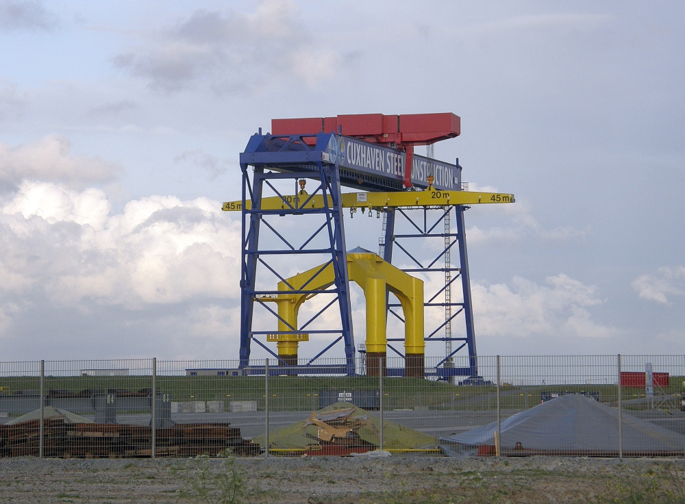 Cuxhaven